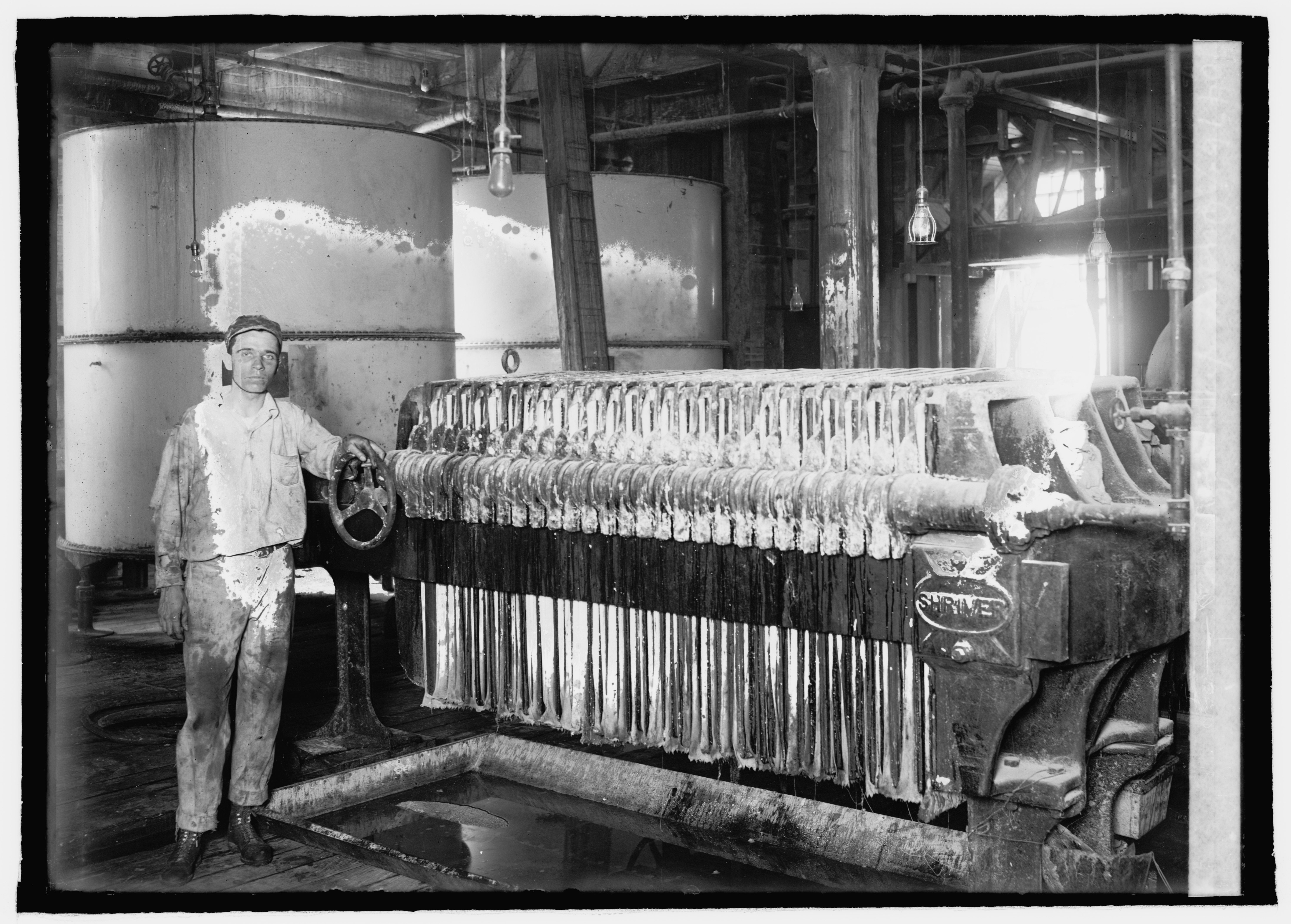 Title: Sugar from corn Abstract/medium: 1 negative : glass ; 5 x 7 in. or smaller